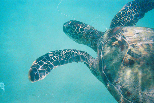 A green sea turtle photographed at Hanauma Bay, Oahu, Hawaii